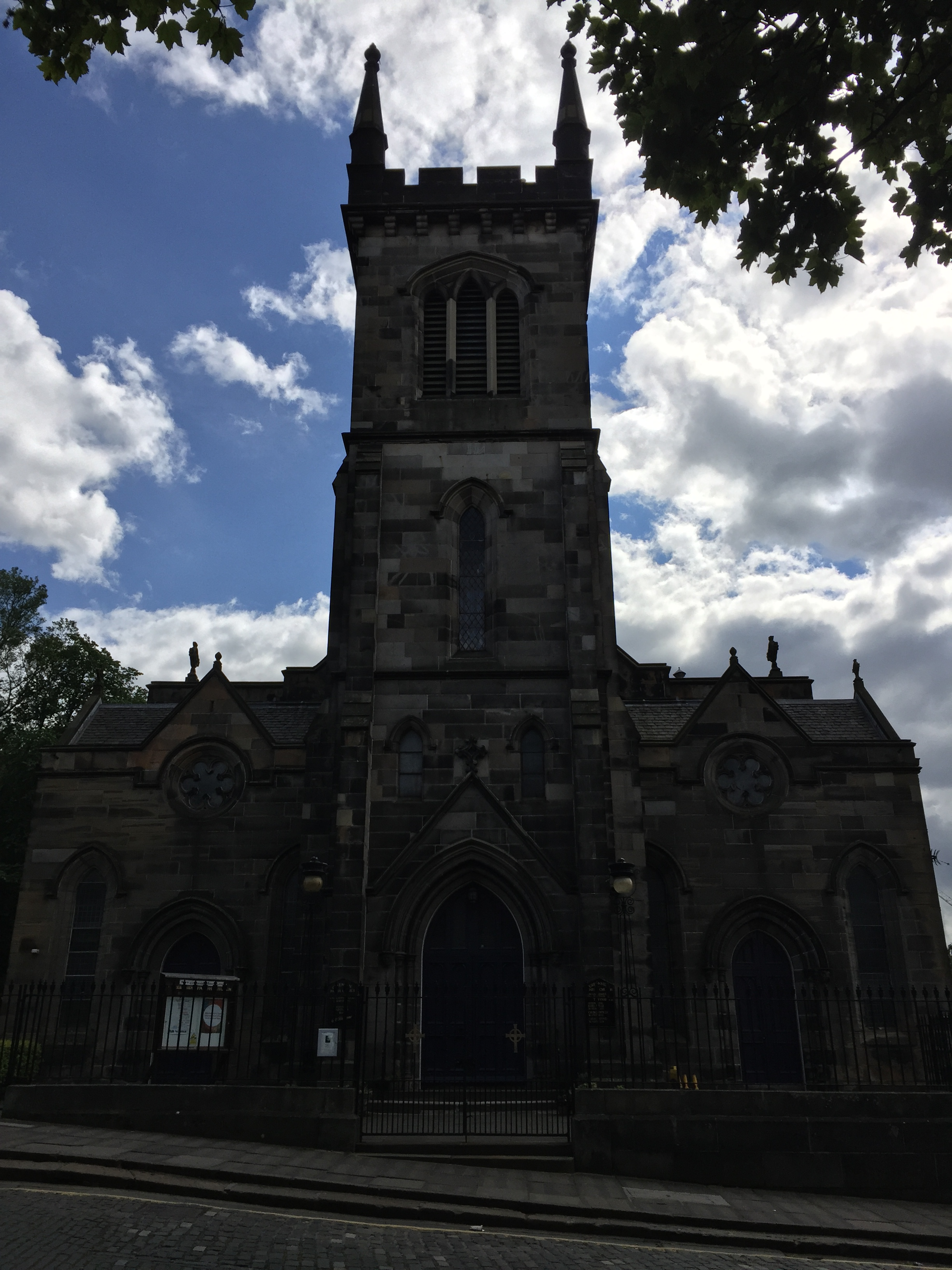 Greenside Parish Church, Blenheim Place, Edinburgh in 2019